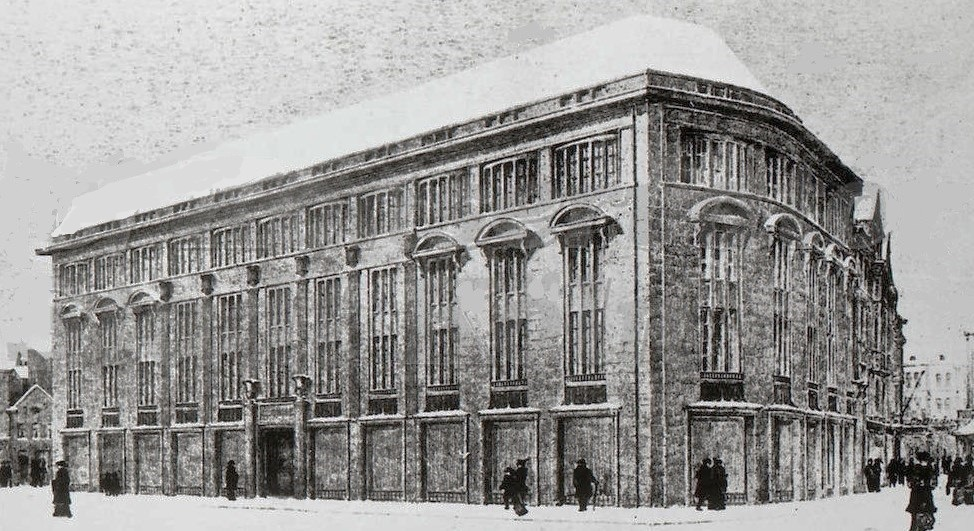 Köln - Olivandenhof 1914